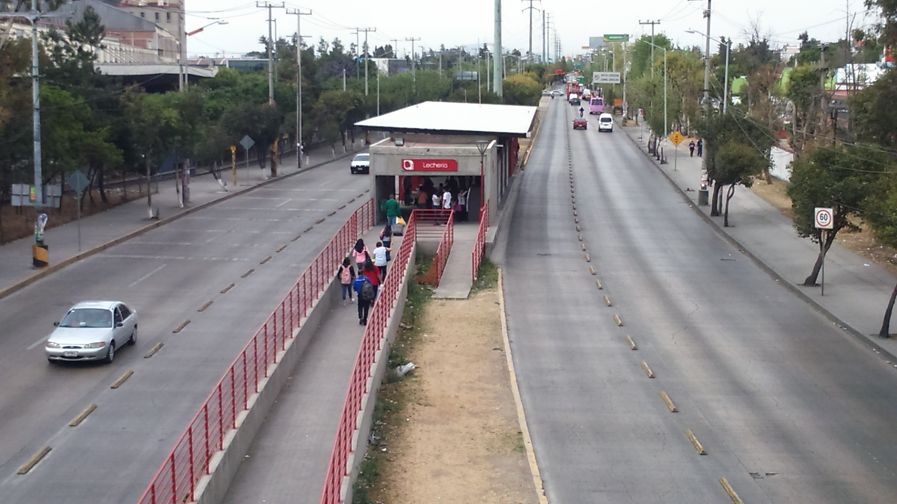 Picture of Lechería Mexibús station.